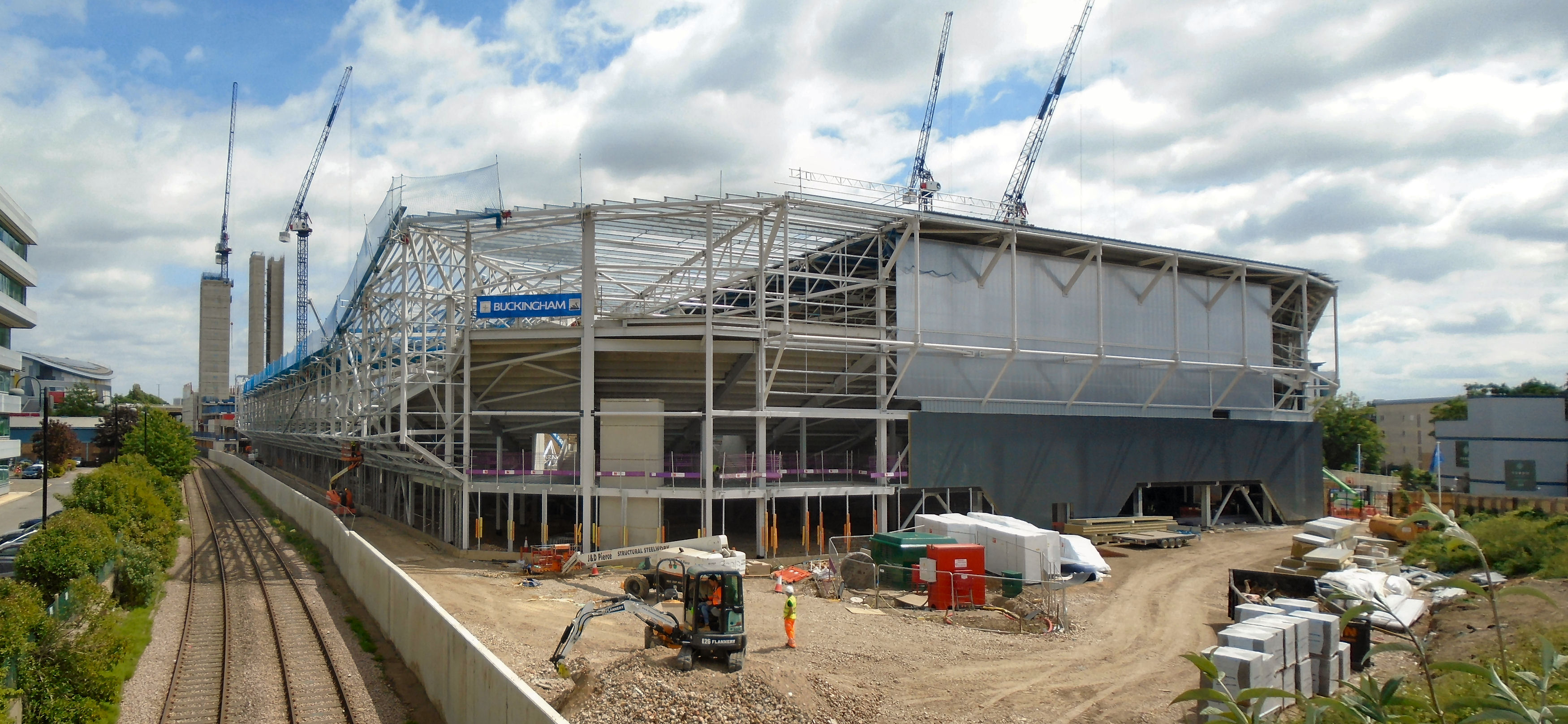 Brentford Community Stadium under construction (May 2019)